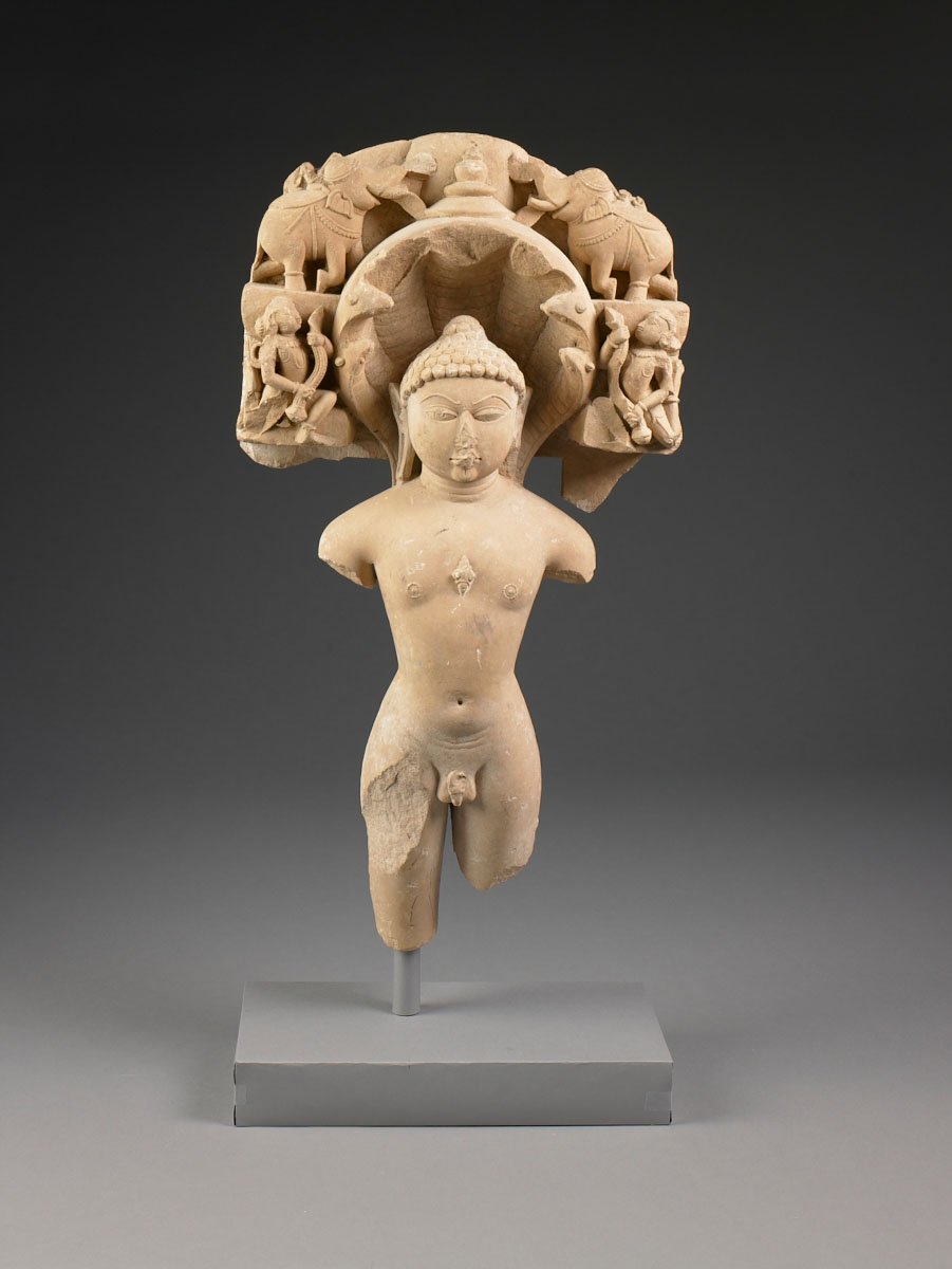 Carving of Parshvanatha, the twenty-third great teacher of the Jain Tradition. From India.